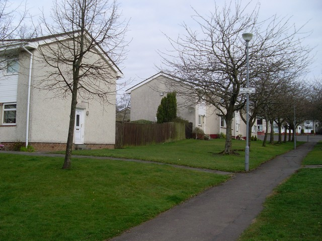 Houses off Western Road Still addressed as Western Road, as the street sign shows.